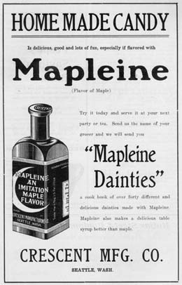 1909 Crescent Mfg. Co. advertisement for Mapleine artificial maple flavoring